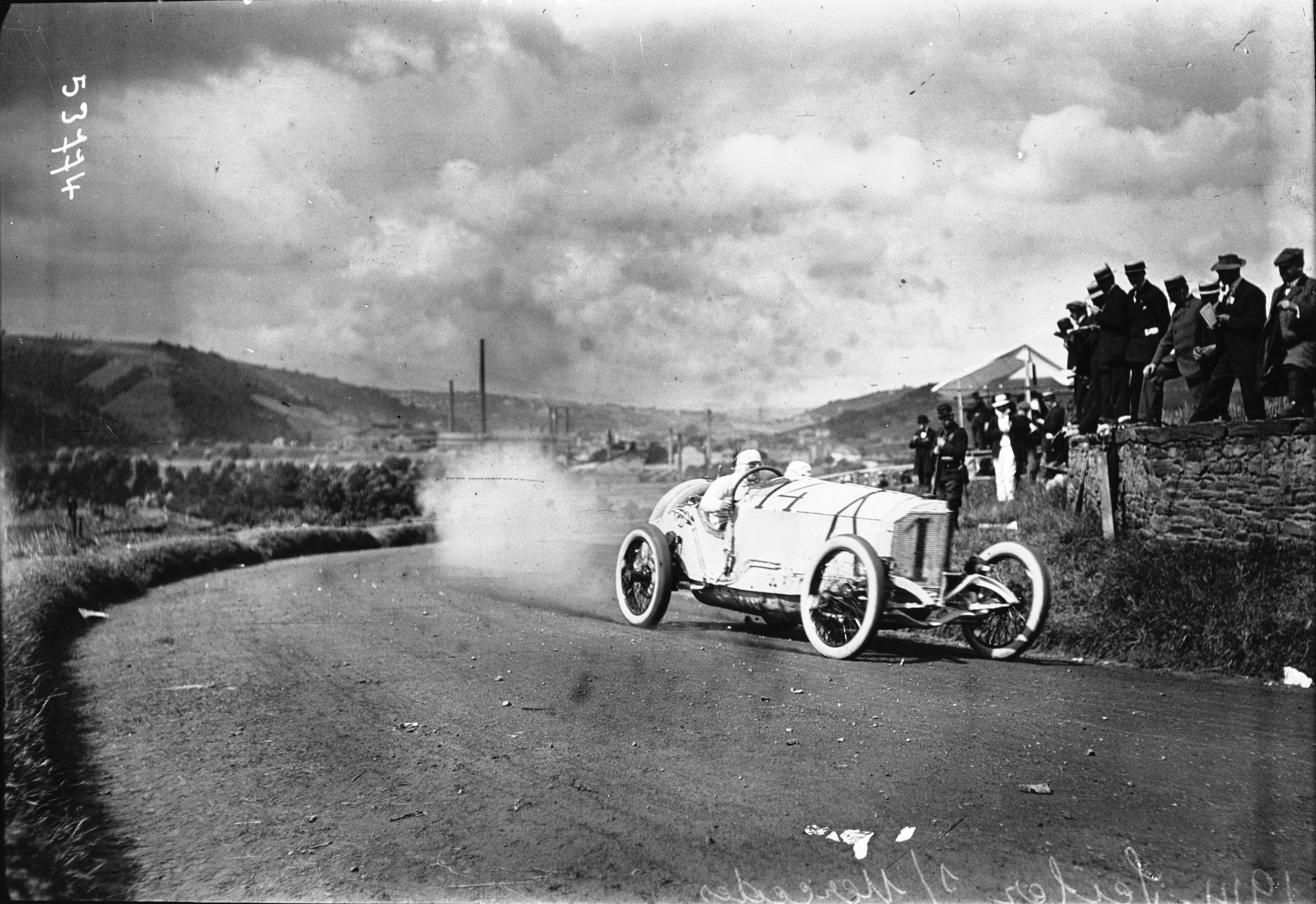 Max Sailer at the 1914 French Grand Prix.